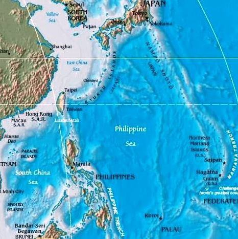 The Philippine Sea is a marginal sea east and north of the Philippines occupying an estimated surface area of 2 million mi² (5 million km²) on the western part of the North Pacific Ocean. West Philippine Sea is the name used by the Philippines for parts of the South China Sea within its exclusive economic zone.